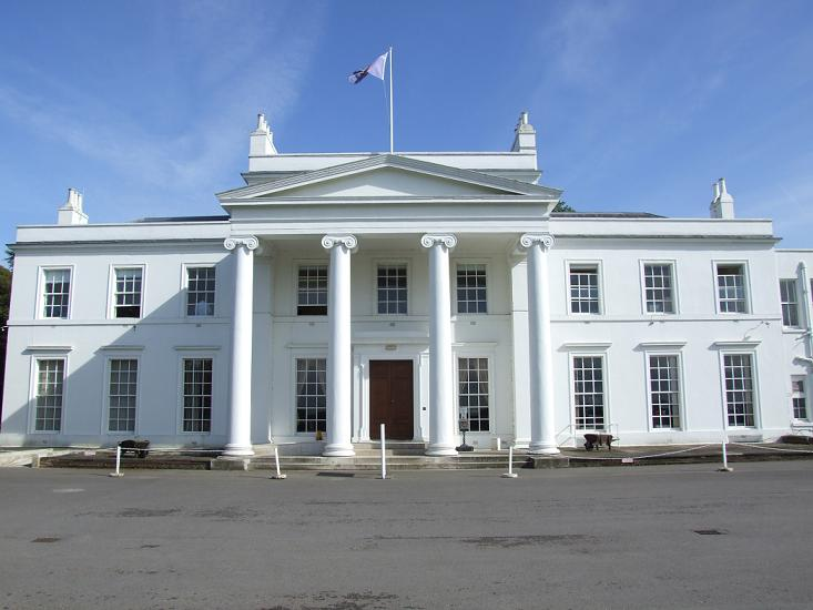 This is the main building at the training centre at Sulhamstead. Photo taken by Cameron McKenzie of the Thames Valley Police